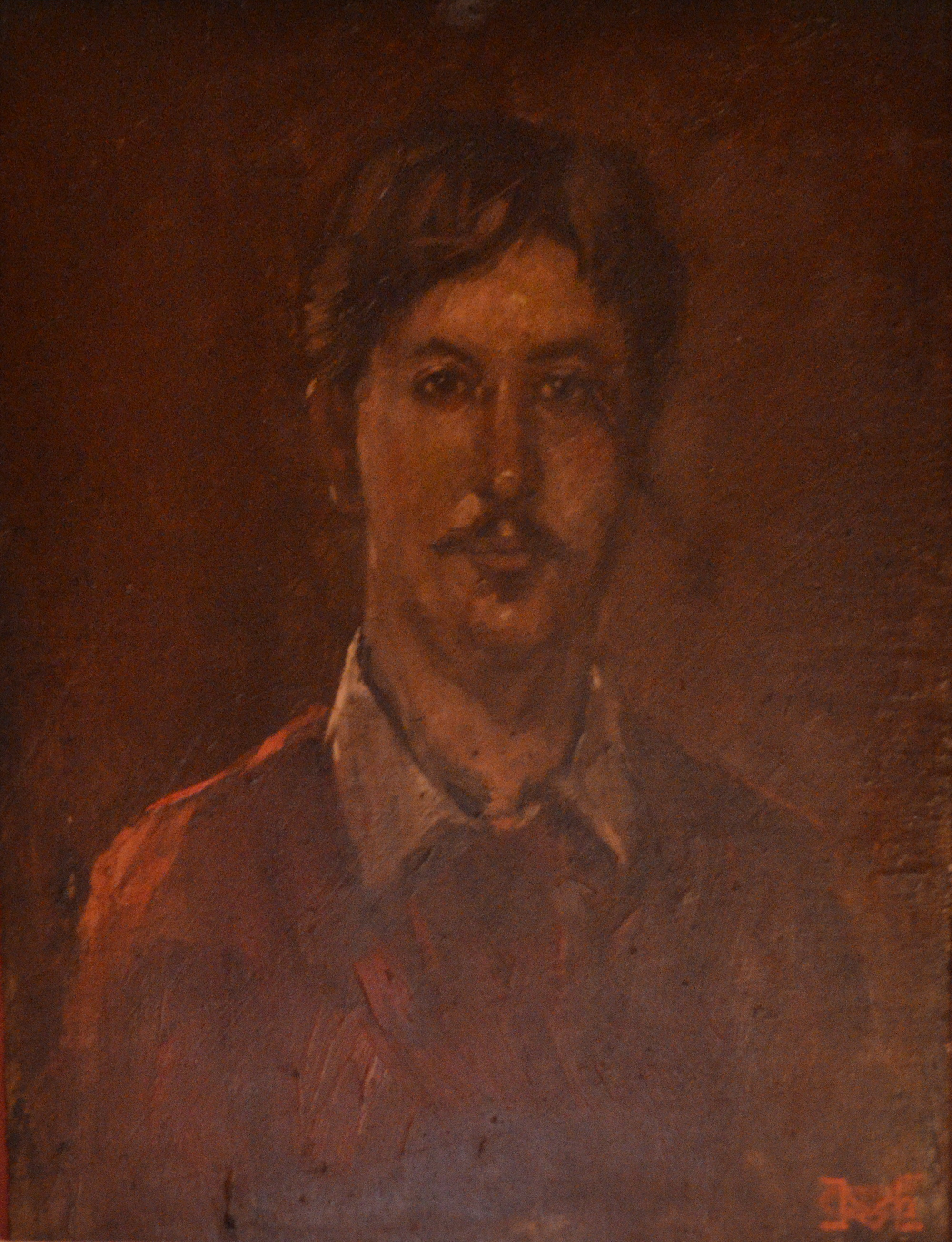 self-portrait